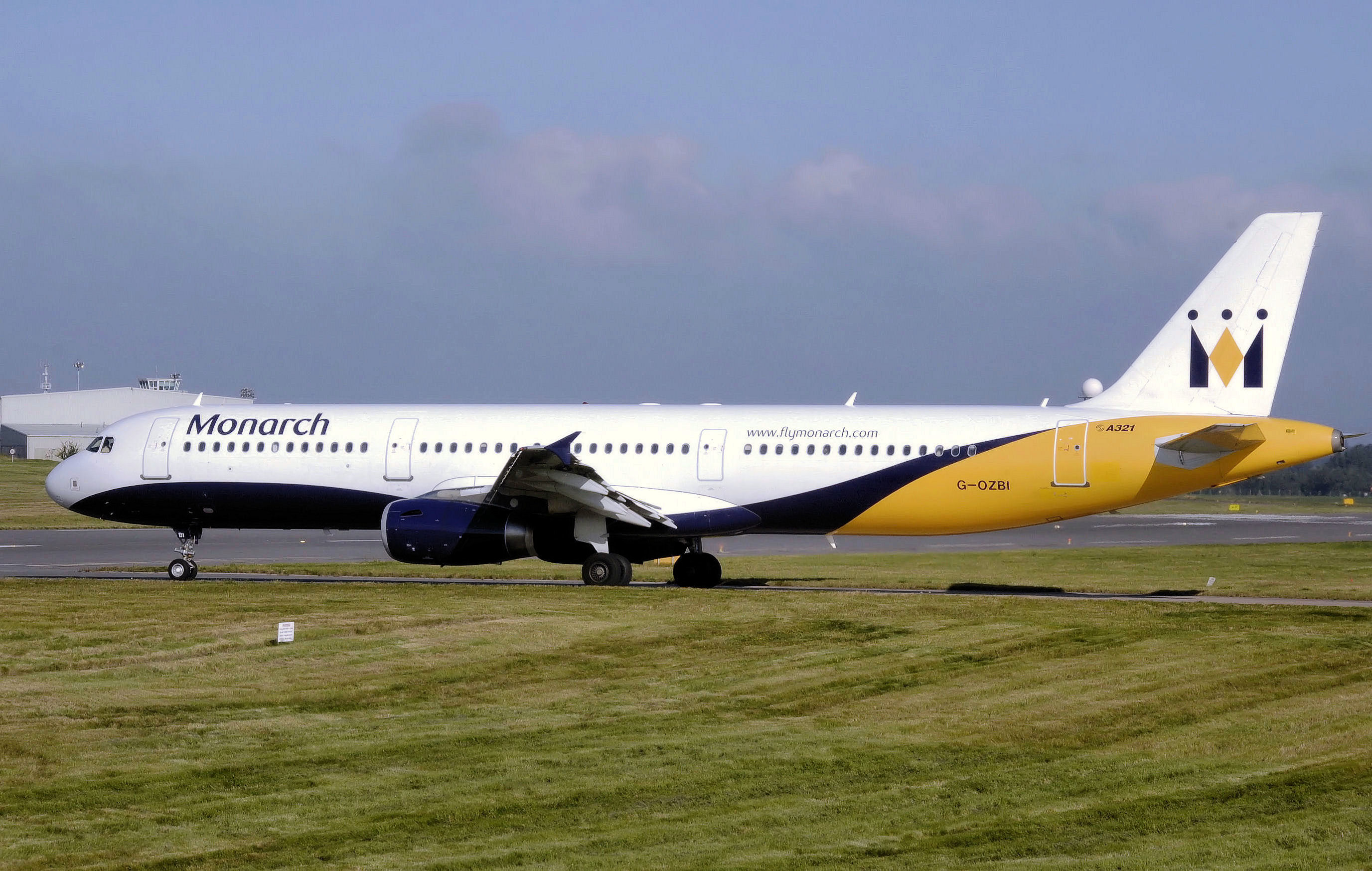 Monarch Airlines Airbus A321-200 (G-OZBI) taxiing to the take off point at Birmingham International Airport, Birmingham, England.